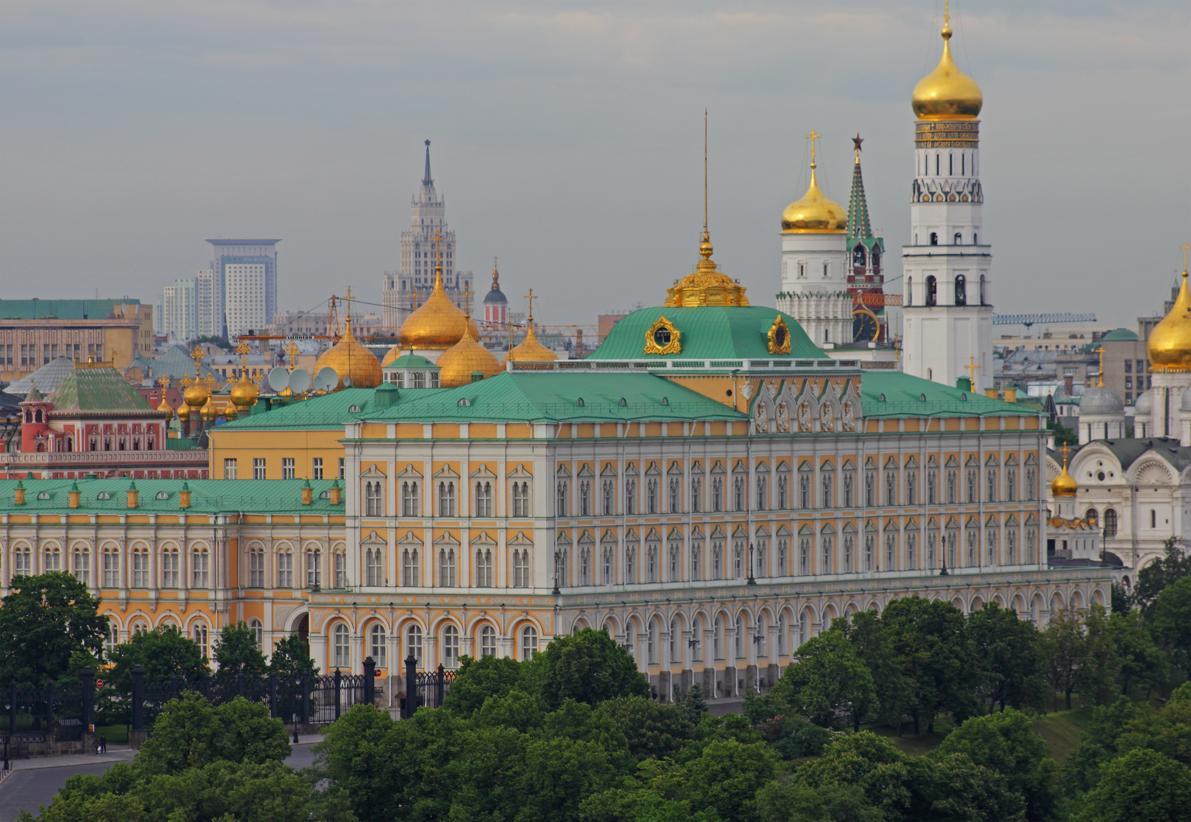 Moscow, Russia. Grand Palace of the Moscow Kremlin.